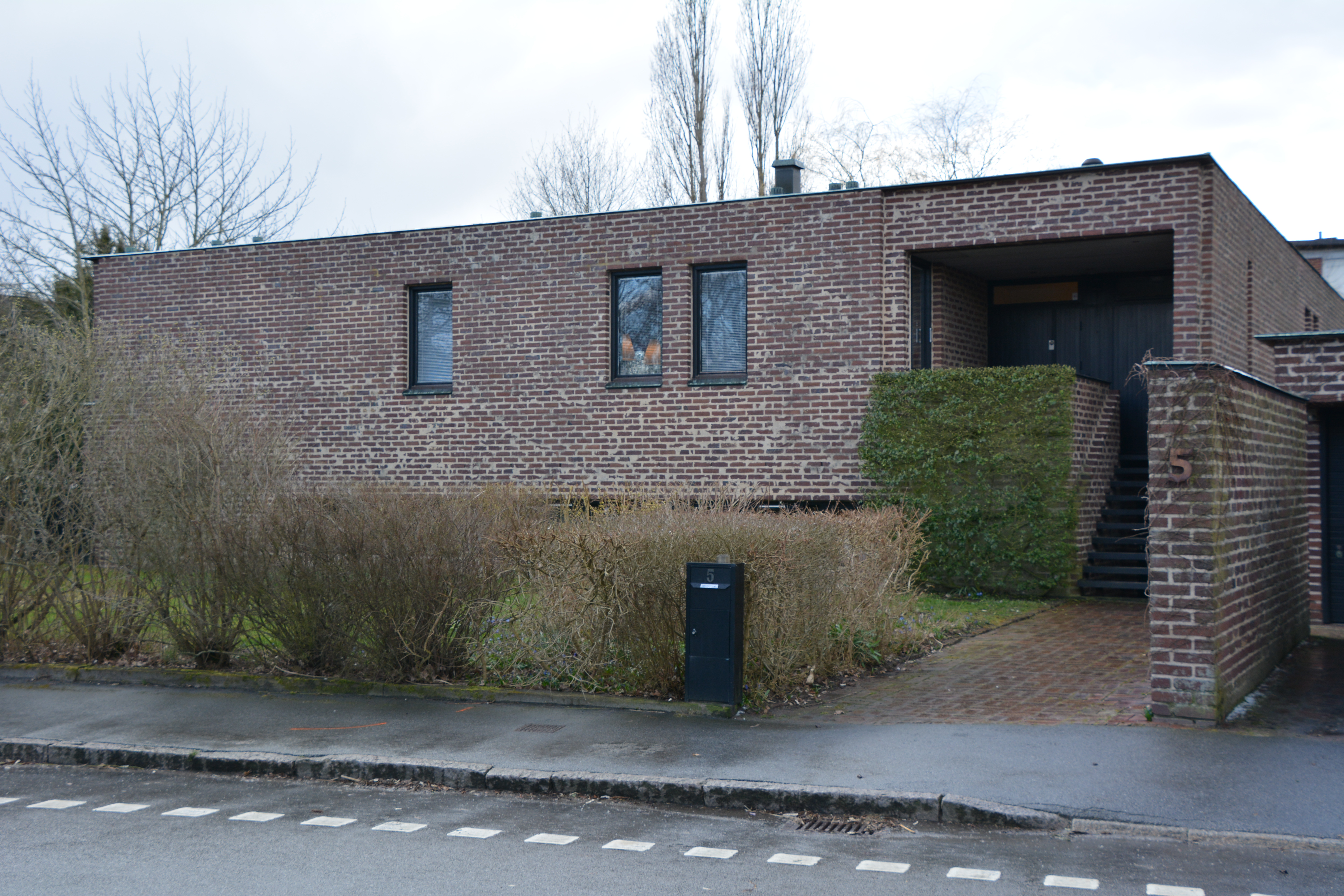 Villa Palm, Hills väg, Galjevången, Lund, av Bernt Nyberg